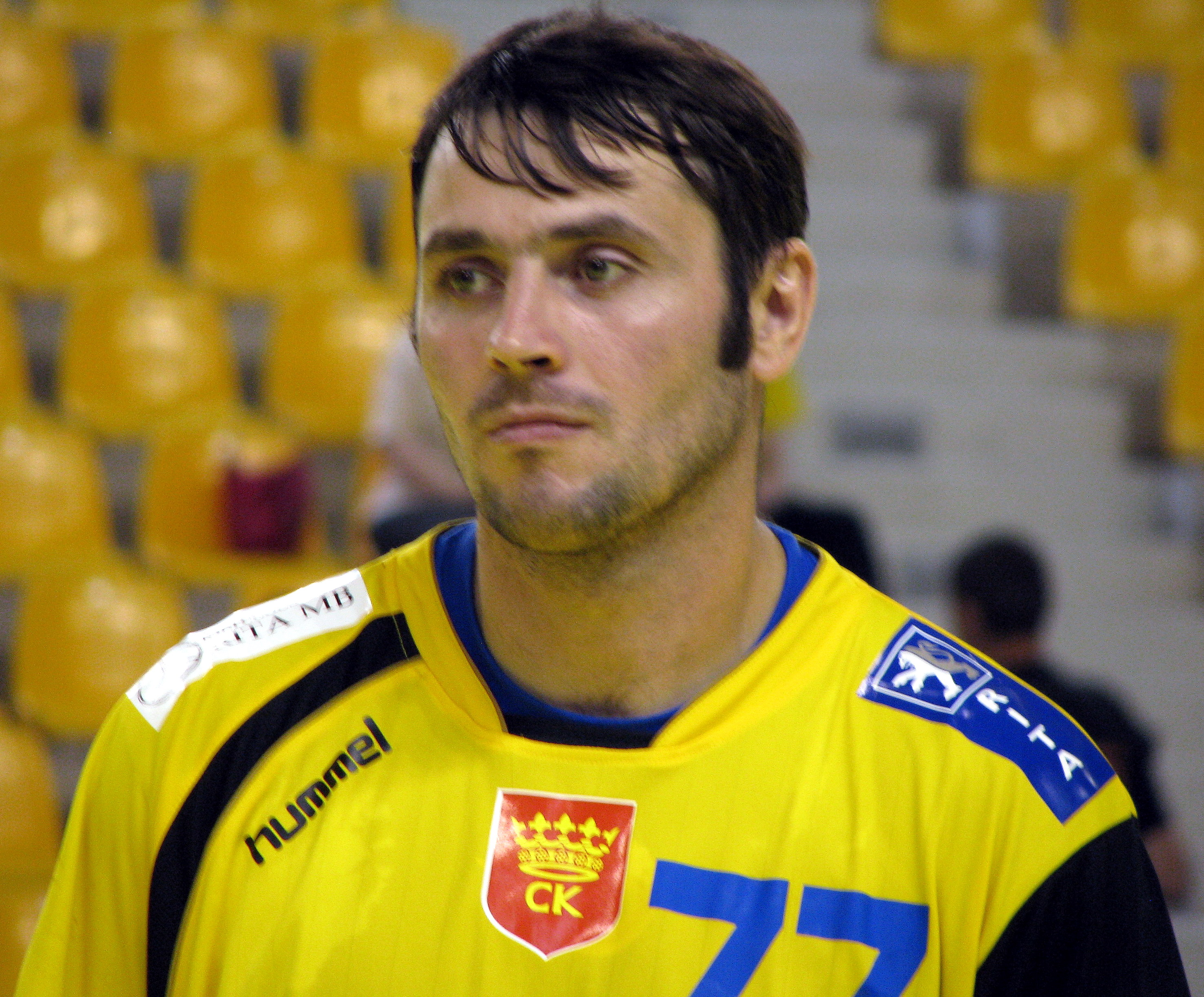 Witalij Nat - Vive Kielce handball player